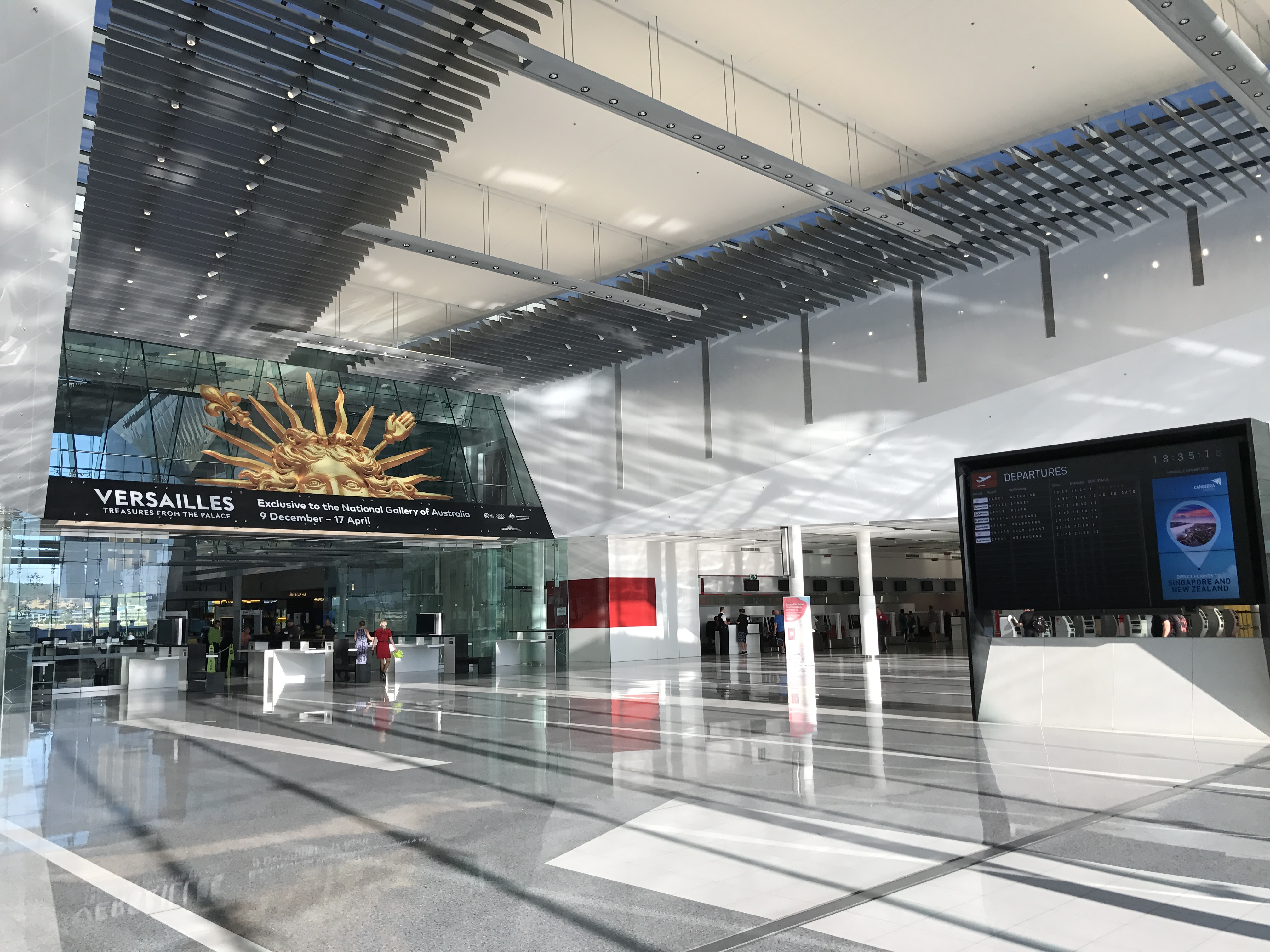 Canberra International Airport in January 2017